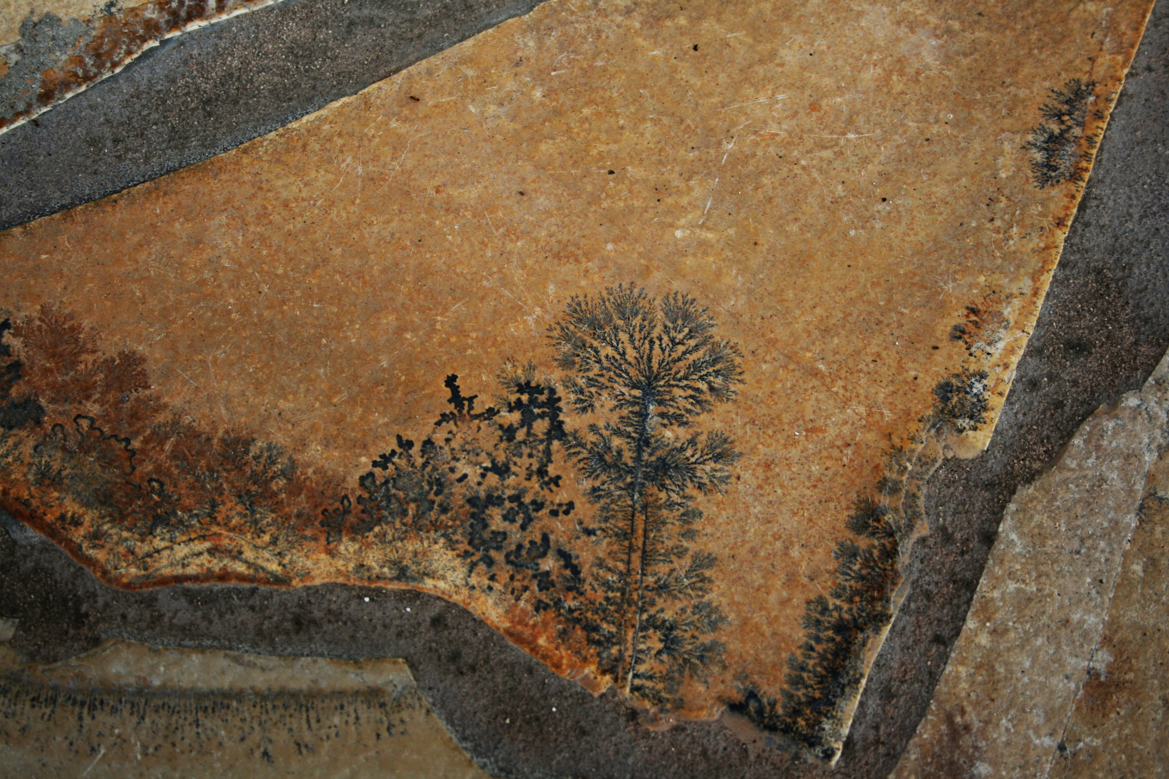 Dendrite. The rock was used as a pavement around swimming pool area. What a waste!